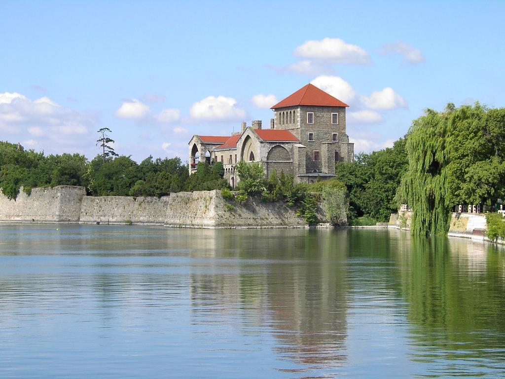 Castle an lake at tata Hungary